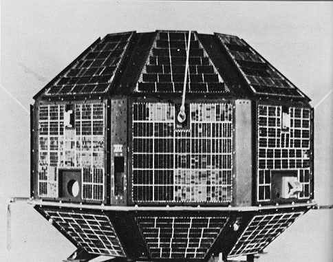 Aryabhata was India's first satellite and was designed for studies of X-ray astronomy, aeronomics and solar physics. Unfortunately, a power failure halted experiments after 4 days in oribt, and all signals from the spacecraft were lost after 5 days of operation.